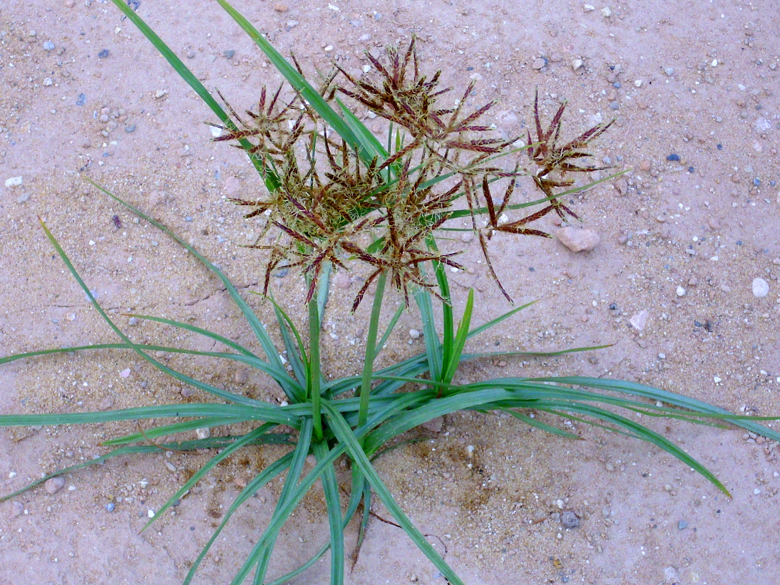 Cyperus rotundus habit, La Mata, Torrevieja, Alicante, Spain.